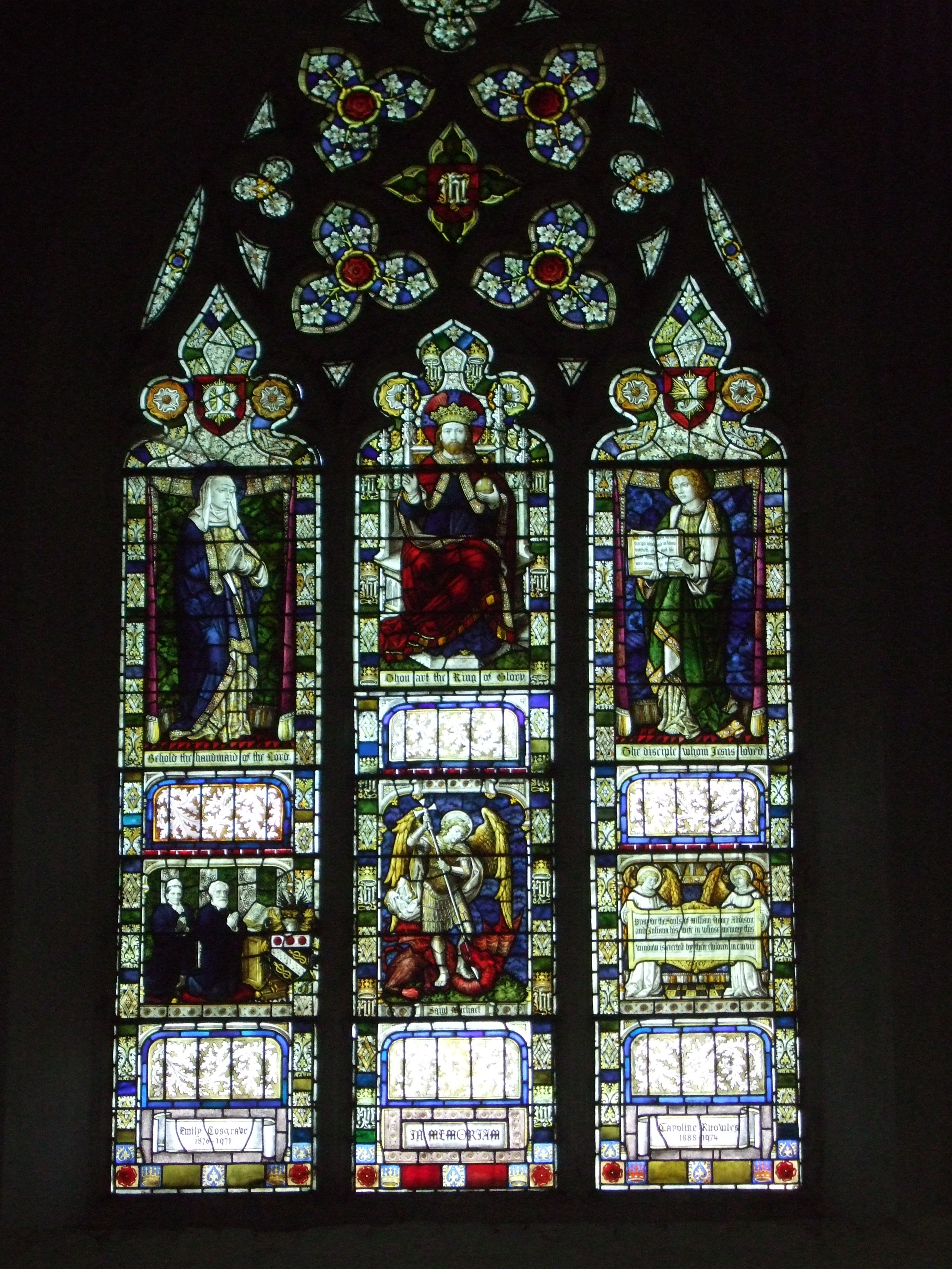 Image of the stained glass window of Offham Rectory, Kent